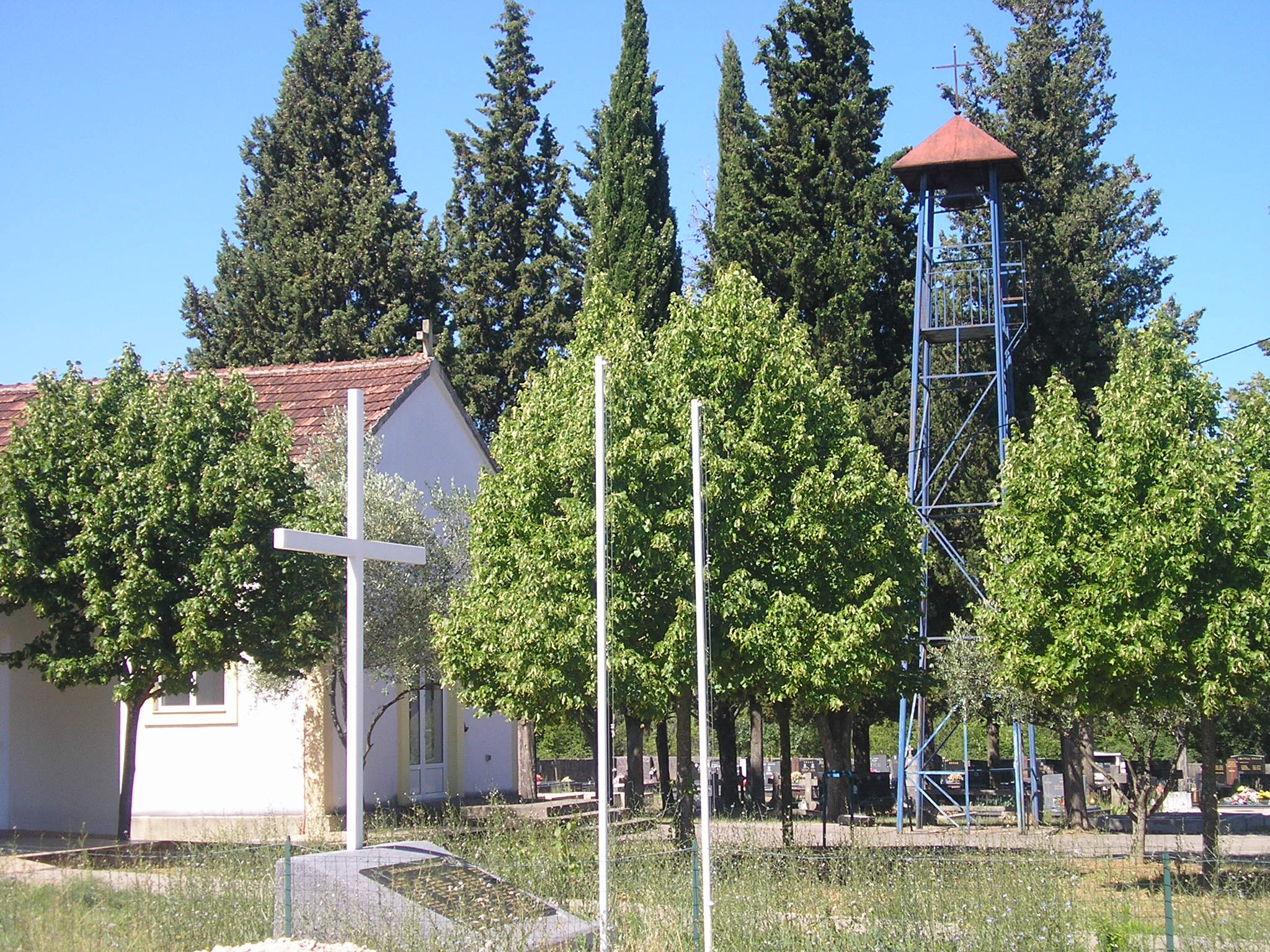 Saint Stepen church in Stubica